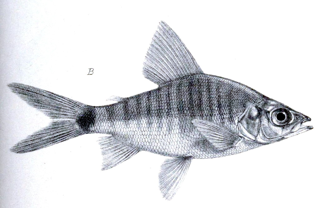 Xenocharax spilurus Günther, 1867